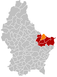 Own edit of Kanton EchternachLocatie.png